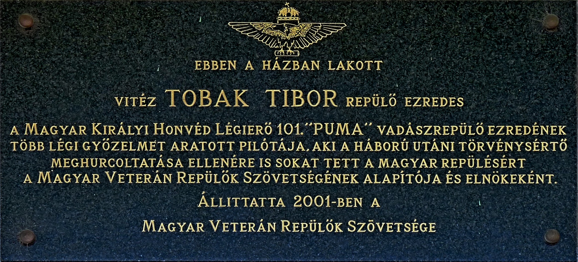 Commemorative plaque to Colonel Tibor Tobak (1921-2001) Hungarian fighter pilot in WWII, columnist for the famous fighter air regiment "Puma". It has been affixed on the wall of his former home. (Budapest, District III, Szőlő Street Nr 82).